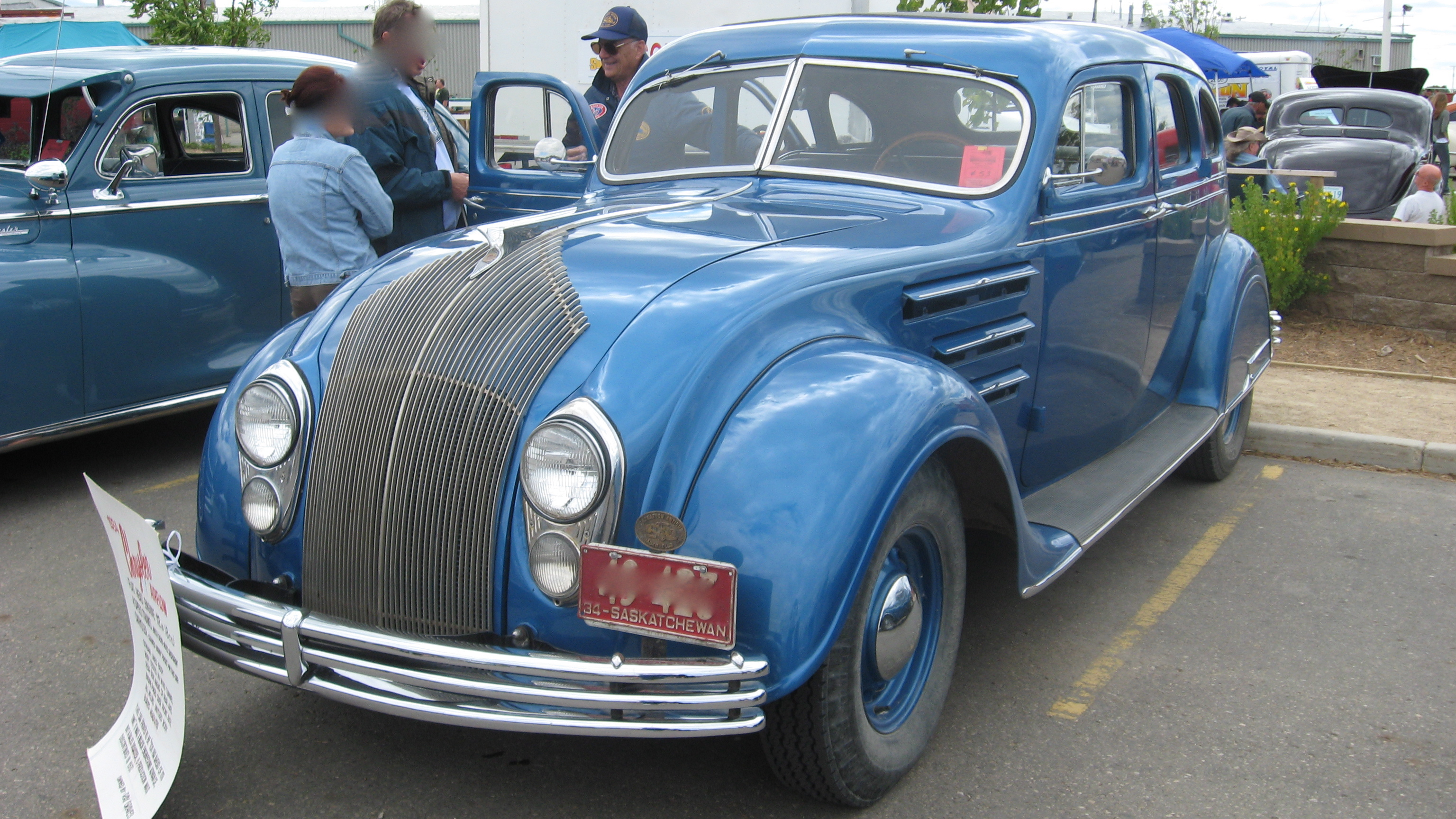 restored '34 airflow (owner in hat & glasses), shot at local car show/swap meet